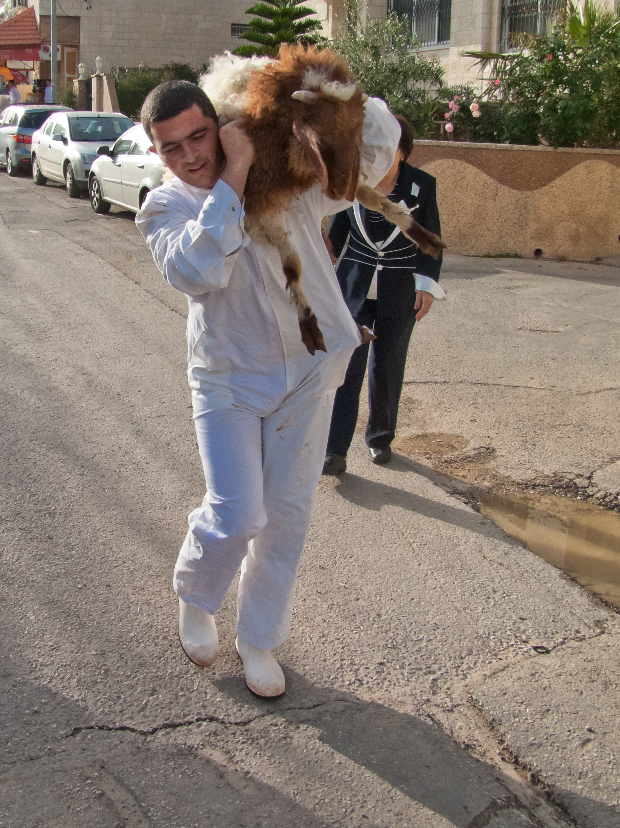 The whole documentary set can be seen here: WARNING!!!! This set contains explicit bloody images which may offend the viewer's sensitivity. Your Discretion Is Advised. Samaritans celebrate Passover on Mt. Grizim. For the Samaritans Mount Grizim, not Jerusalem, is the one true sanctuary chosen by Israel's God. Their community counts about 700 people. The Passover sacrifice-is the parallel of the Jewish Seder Night. The Samaritans gather around the altar and listen to the high priest's Passover blessing. Given his signal, the nominated people simultaneously sacrifice the animals. Around 50 lambs are sacrificed in one minute. Every Samaritan then puts a drop of blood on his forehead in identification with the Israelites drawing blood on their doorframes so that the angel of death would Pass Over their houses and spare the lives of their firstborns. Info from: Samaritans